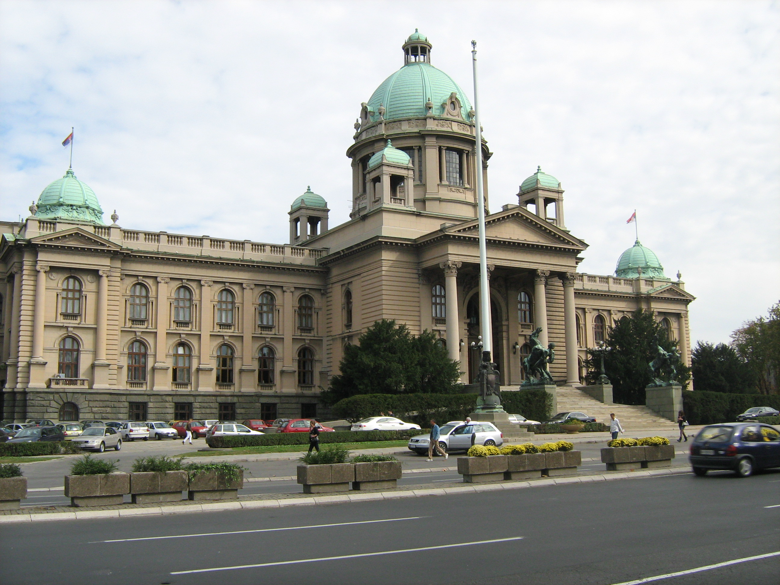 National Assembly of Serbia